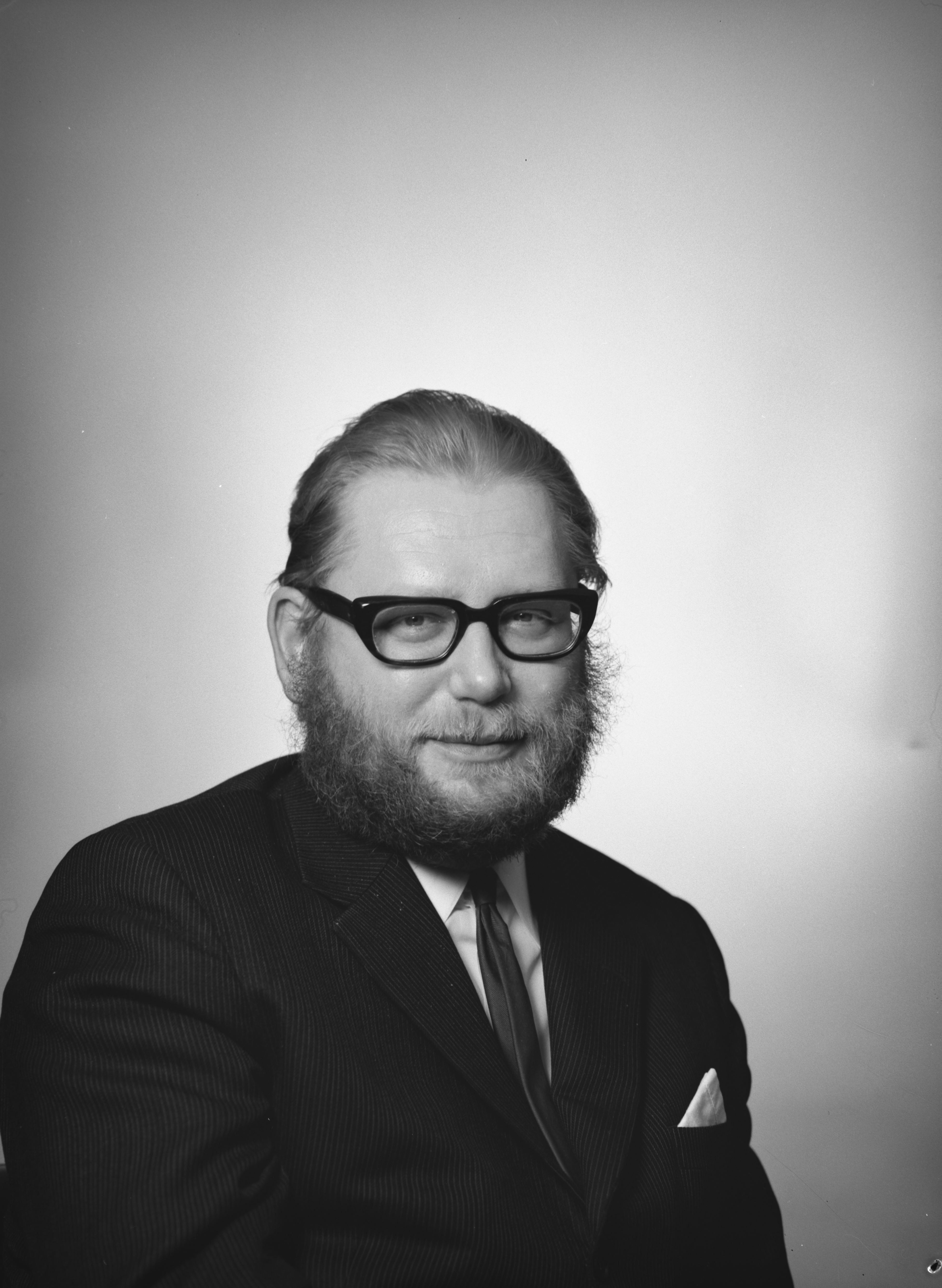 Photograph of the Finnish lawyer and businessman Bror Wahlroos (1928–2007).